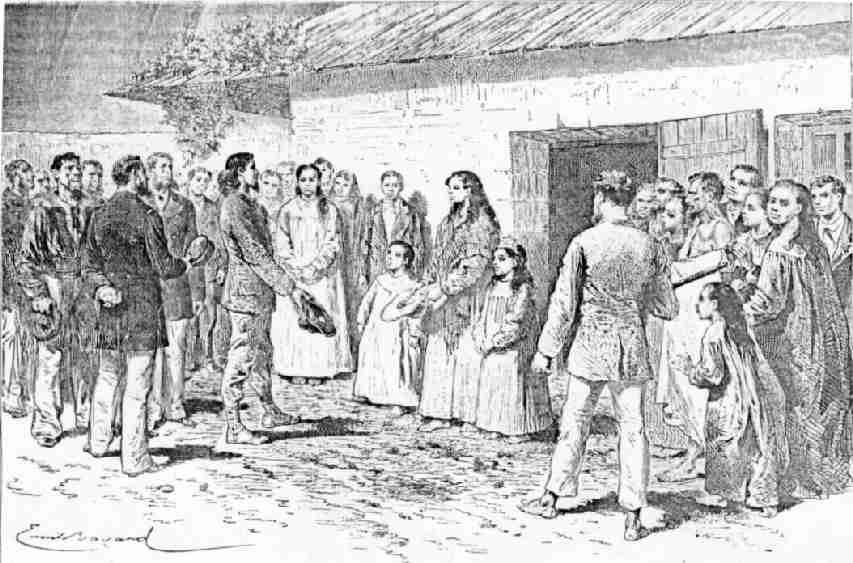 French explorer Alphonse Pinart, onetime husband of Zelia Nuttall, is introduced to the Queen of Easter Island in 1877.